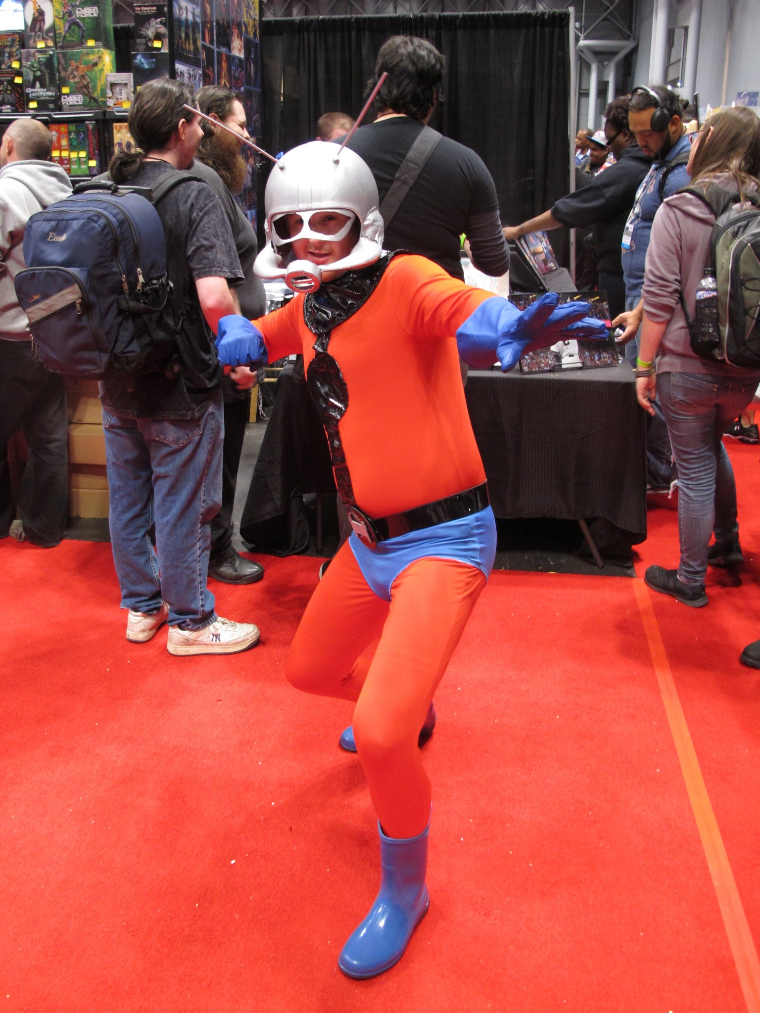 Ant-Man Cosplay at the 2014 New York Comic Con.